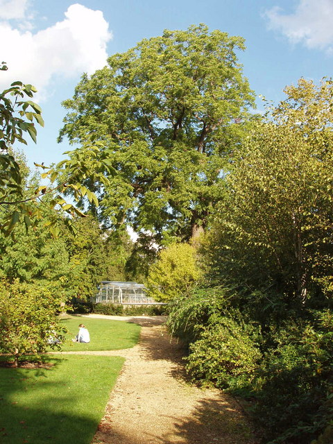 Black walnut tree, Juglans nigra, in the University of Oxford Botanic Garden. The tree was planted in 1850.